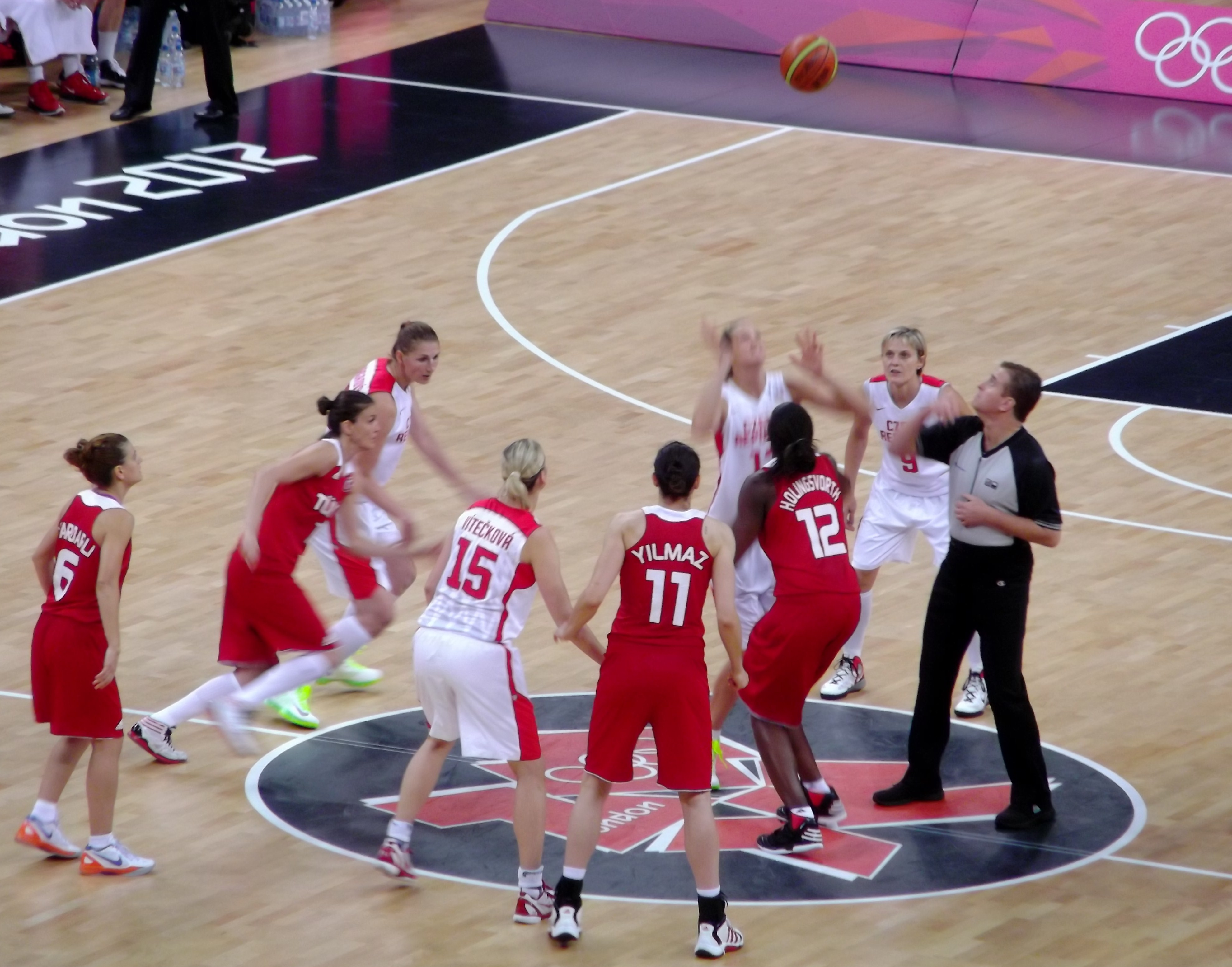 Czech Republic v. Turkey, Women's basketball tournament at the 2012 Summer Olympics in London